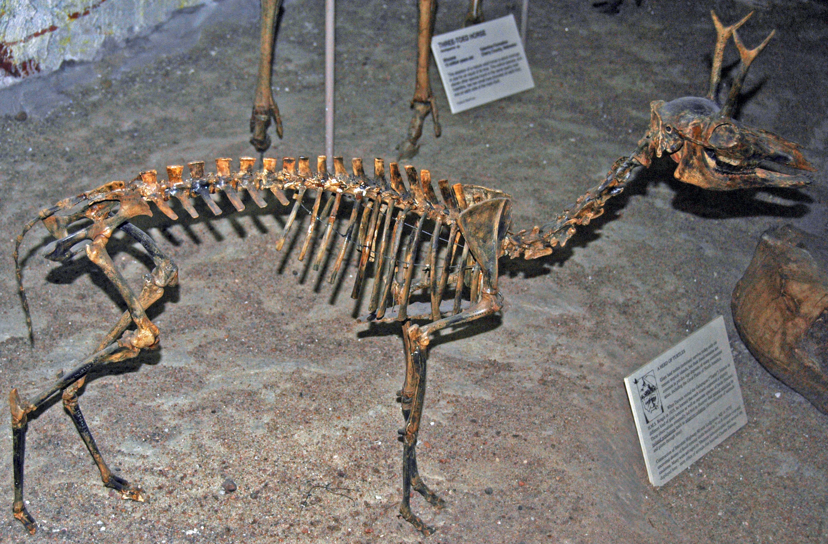 Cosoryx furcatus Leidy, 1869- fossil ancient pronghorn antelope skeleton from the Miocene of Nebraska, USA. (public display, Nebraska State Museum of Natural History, Lincoln, Nebraska, USA) Classification: Animalia, Chordata, Vertebrata, Mammalia, Artiodactyla, Antilocapridae Stratigraphy: Valentine Formation, Miocene Locality: Cherry County, northwestern Nebraska, USA